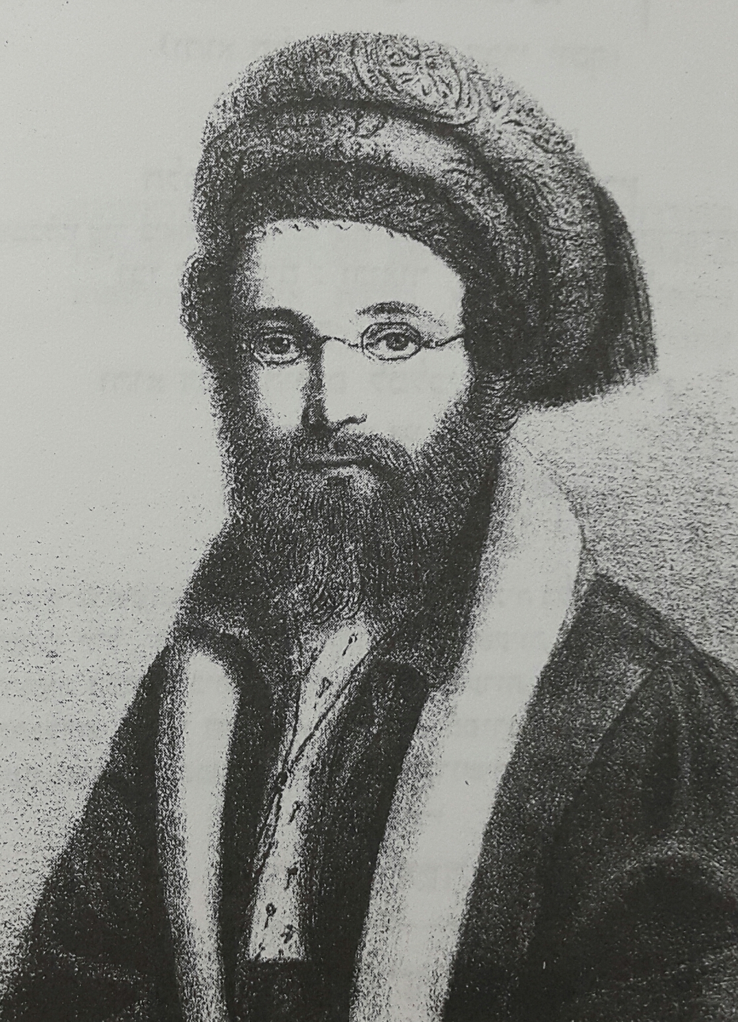 Rabbi Yosef Schwartz. According to Meier Schwarz it's a self portrait.